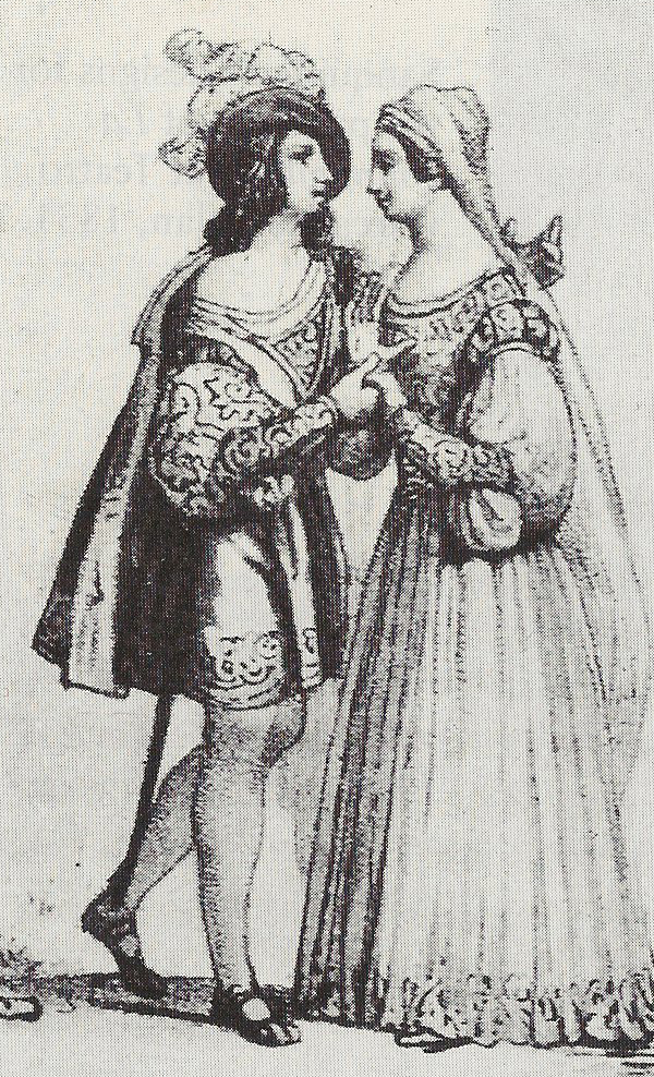 Grisi & Schutz- I Capuleti-La Scala 1830